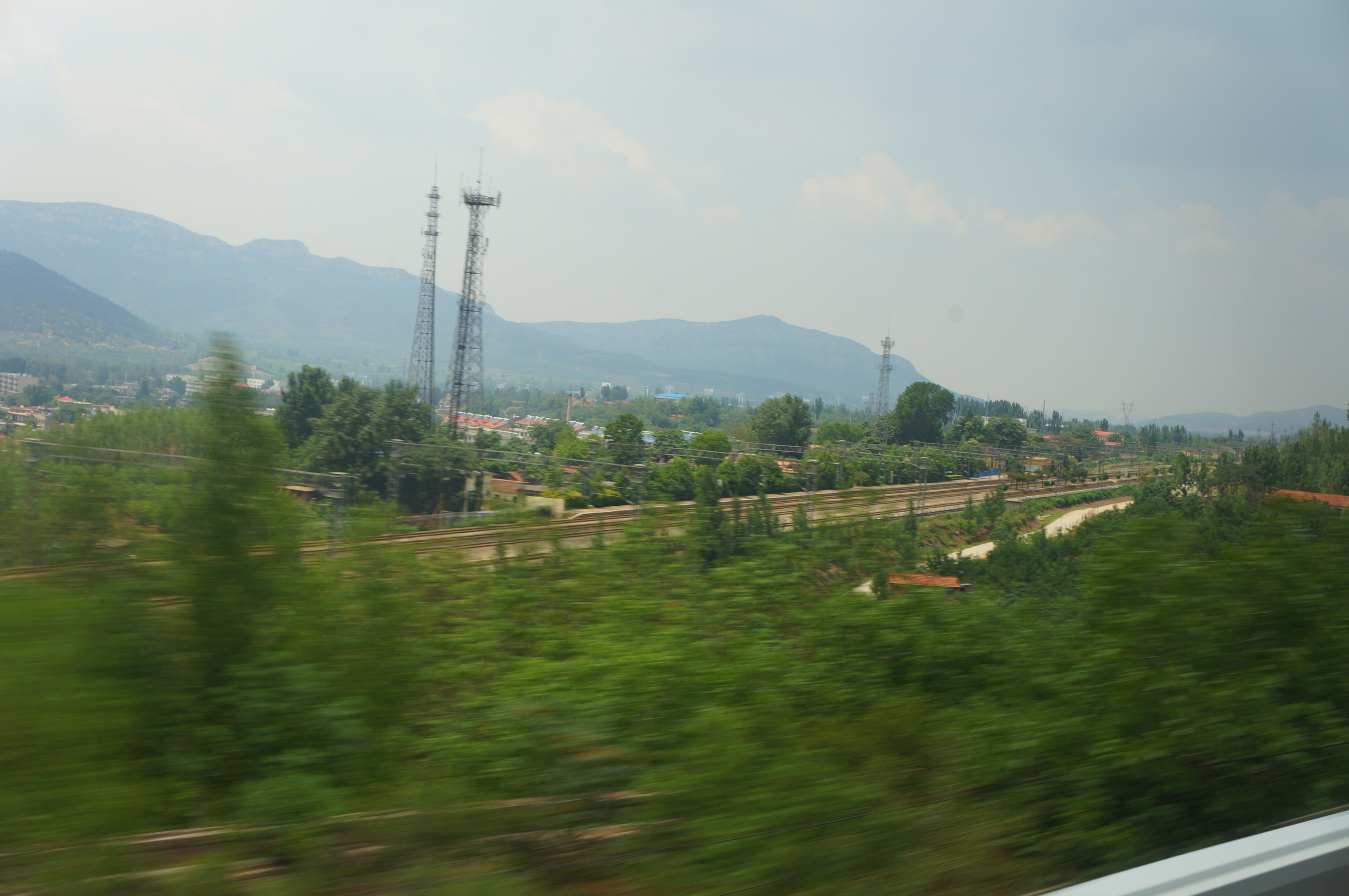 201616 Zhangxia Station